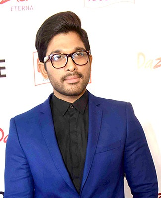 Allu Arjun at the 62nd Filmfare Awards South ceremony held in Nehru Stadium, Chennai.